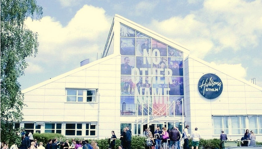 Hillsong Stockholm Norra in Rosersberg, on October 28, 2012